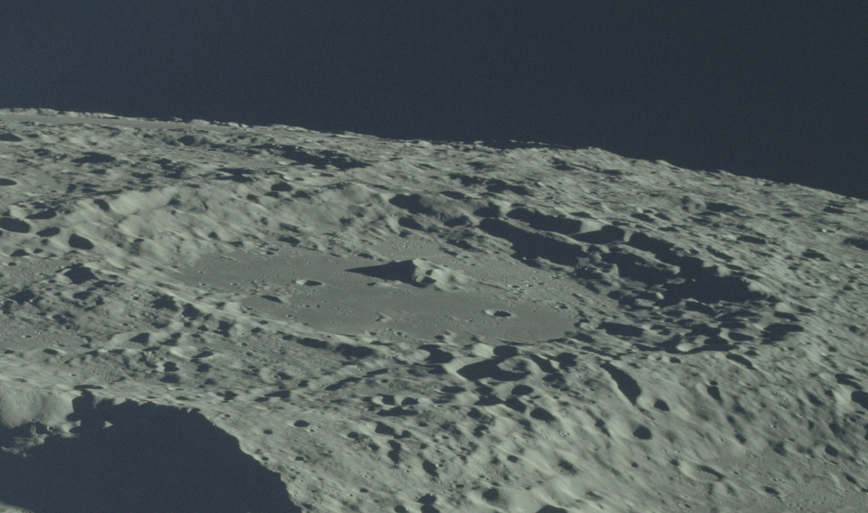 Oblique view of Leeuwenhoek crater, on the far side of the moon, Apollo 17 image AS17-150-22948